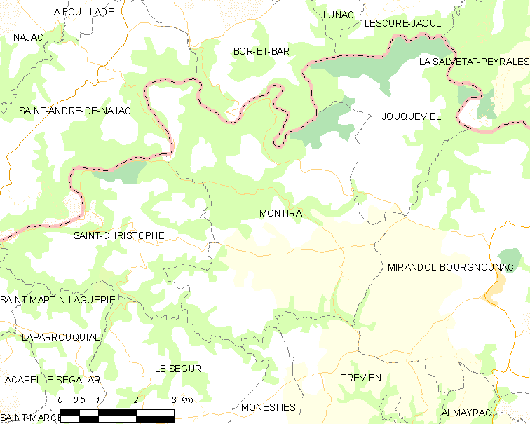 Map of French municipality Montirat